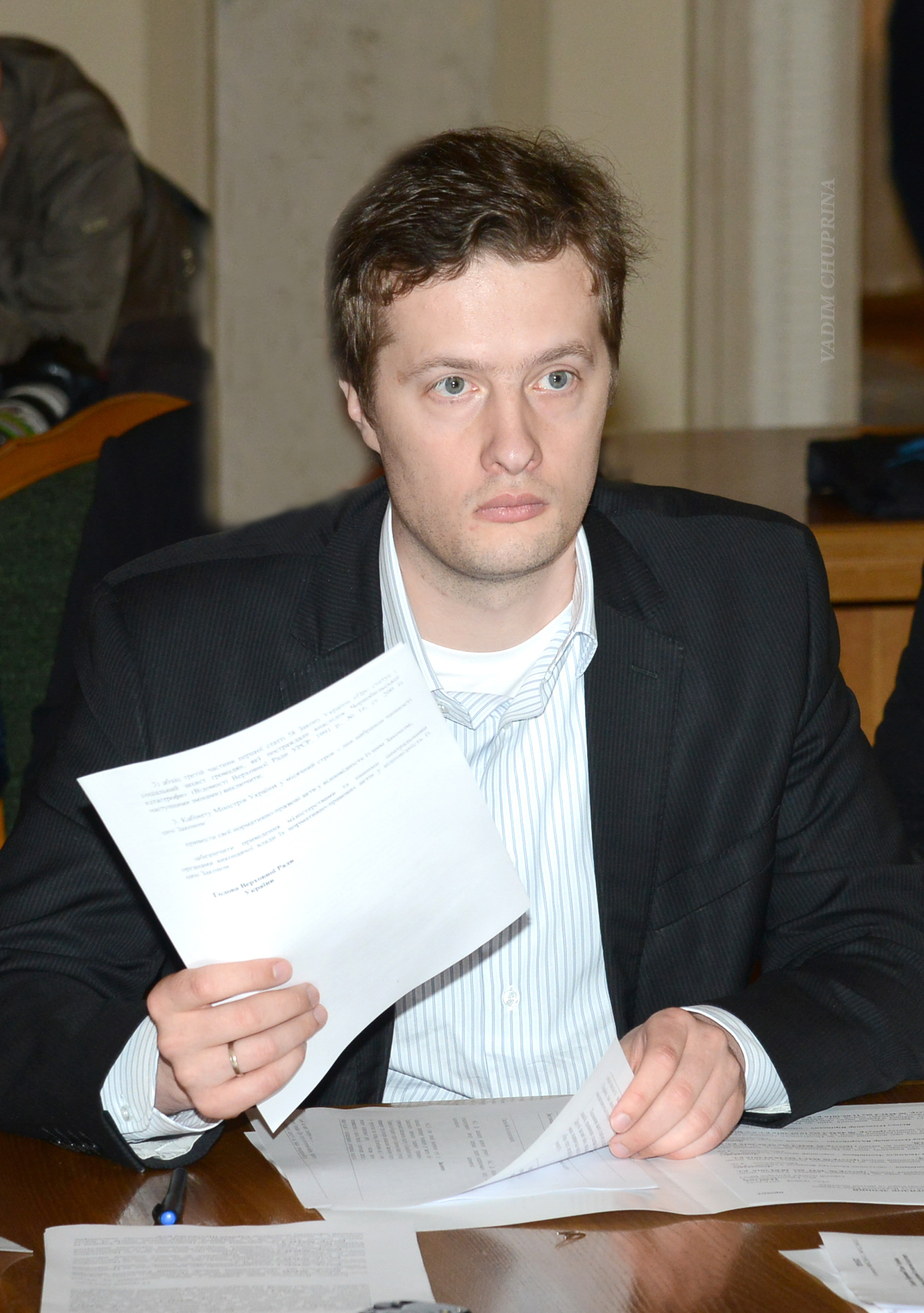 Ukrainian politicians VADIM CHUPRINA